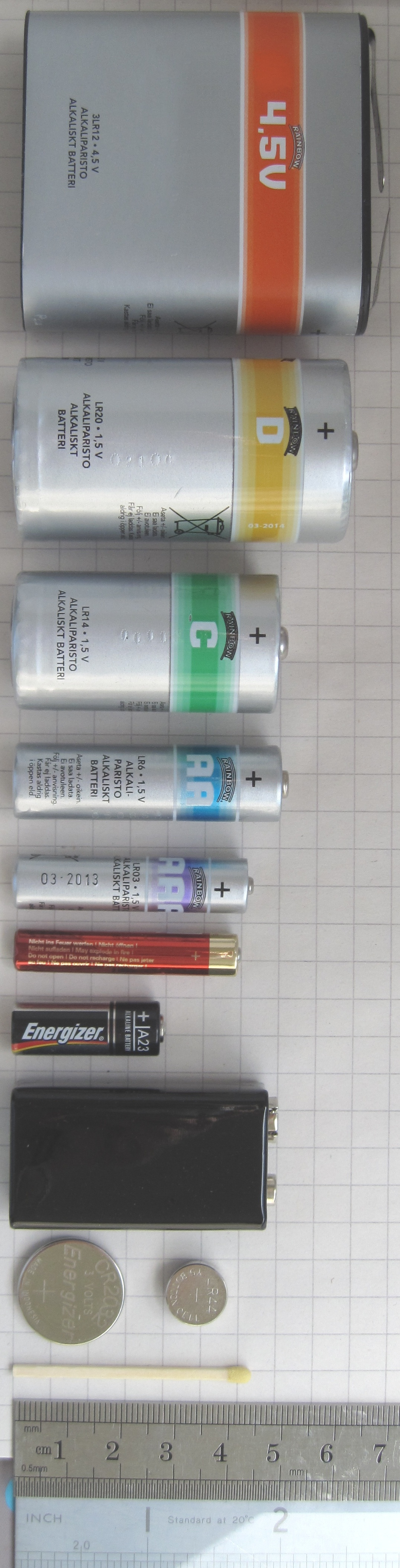 In order the batteries are: 4.5 V (3LR12) battery D (LR20) cell C (R14) cell AA (LR6) cell AAA (LR03) cell AAAA (LR8D425) cell A23 (8LR932) battery 9-Volt (6LR61) battery CR2032 battery LR44 battery Matchstick, silver cm ruler and a blue inch ruler used for scale. The grid in the background is 7mm square.